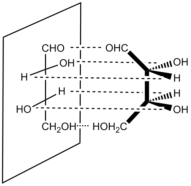 Creating the Fischer projection for a molecule containing two chiral centres